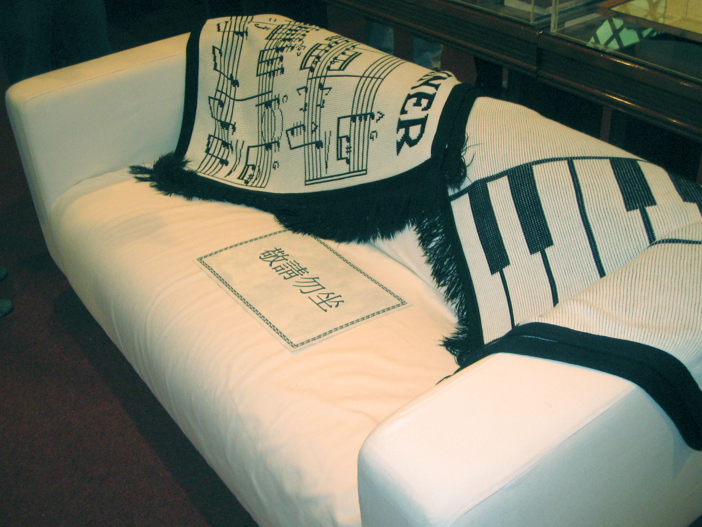 I take this photo by myself.